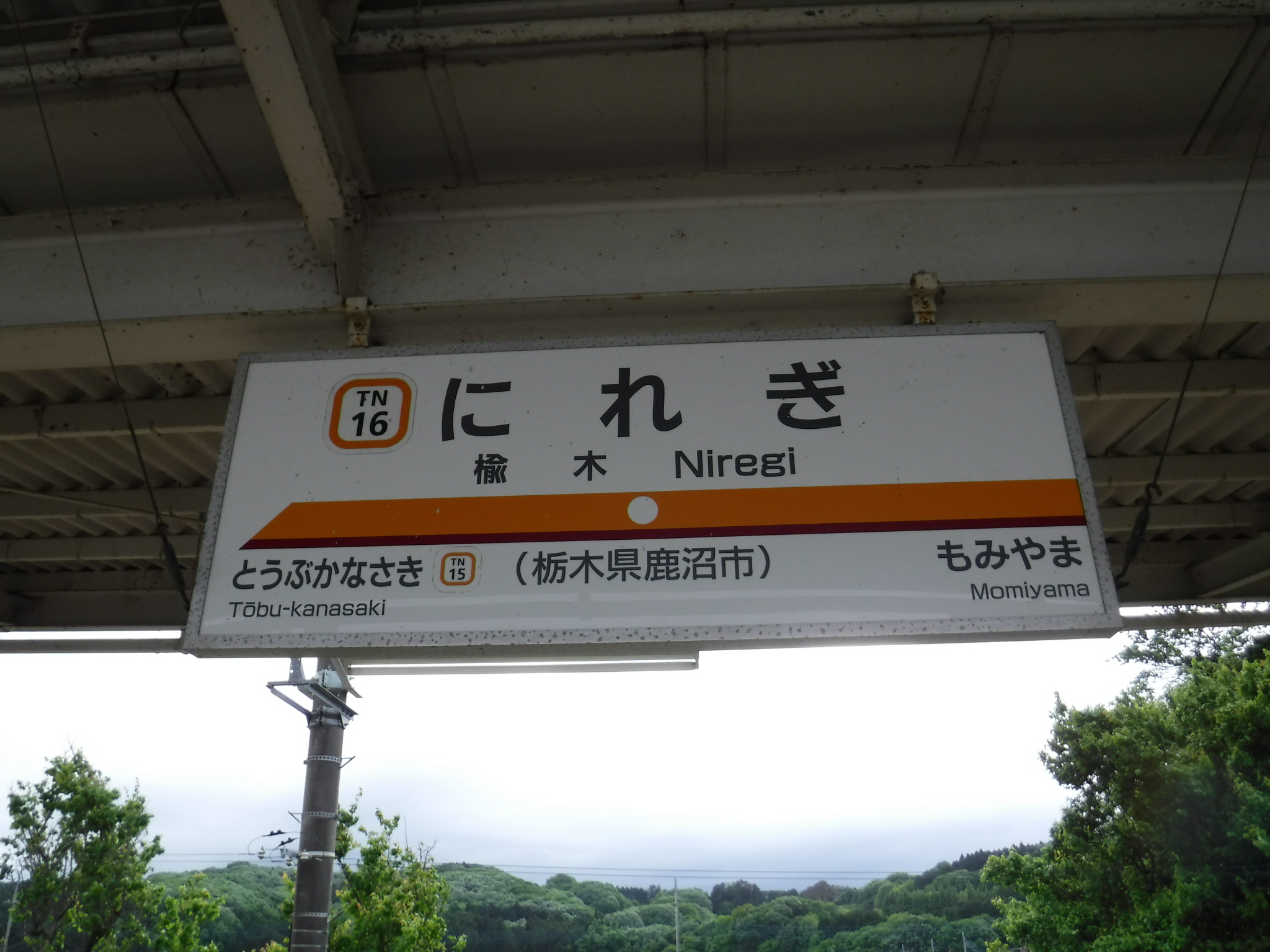 Sine at TOBU